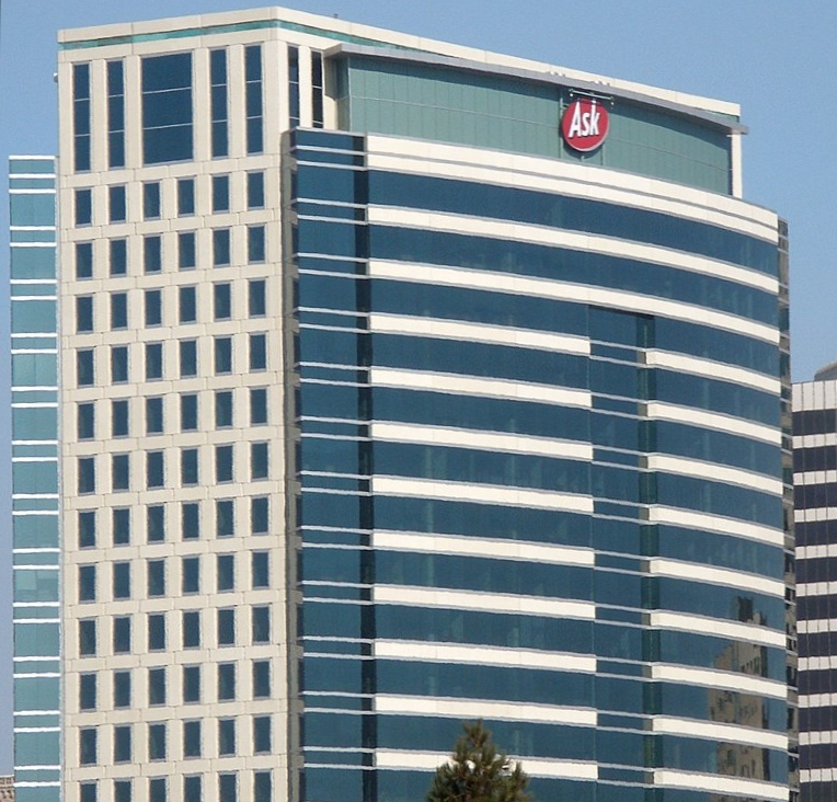 The headquarters of en: in Oakland, California. Photographed on September 13, en:2006 by user Coolcaesar. Can be seen on the Train in Oakland. Only headquarters for Recently updated